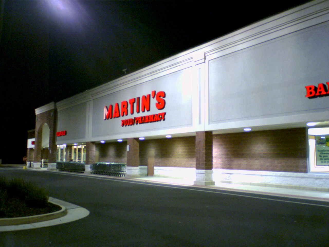 The Martin's grocery store in Waynesboro, Virginia. Martin's is a division of Giant Food of Carlisle, Pennsylvania. Photo taken October 8, 2006 by Ben Schumin.